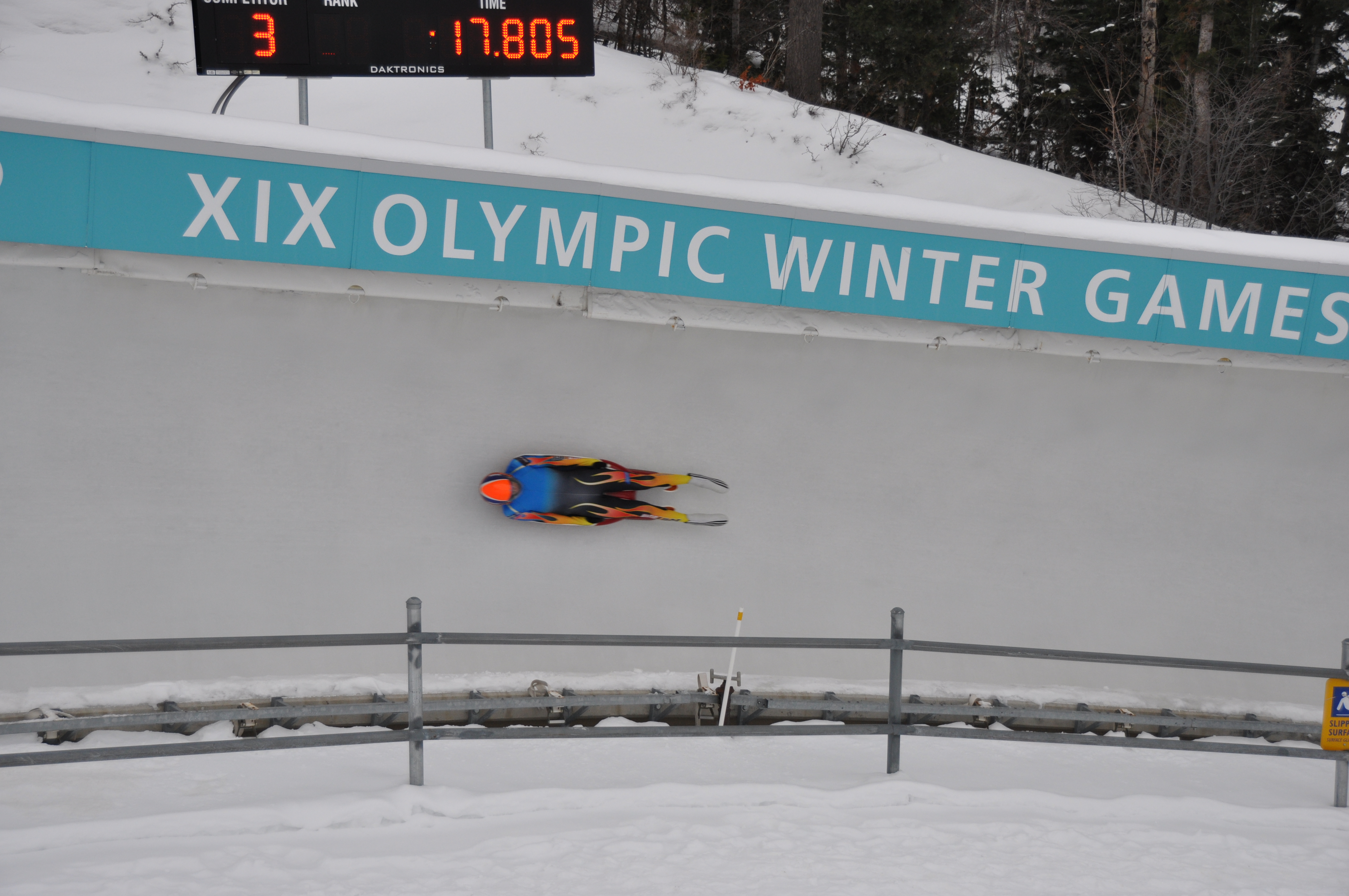 Utah Olympic Park - USA Luge Junior National Team Athlete, Matt Wolbach, slides through curve 6 while participating in the 2010 "Utah Winter Games". Park City, Utah, USA. Utah Olympic Park bobsleigh/luge/skeleton track